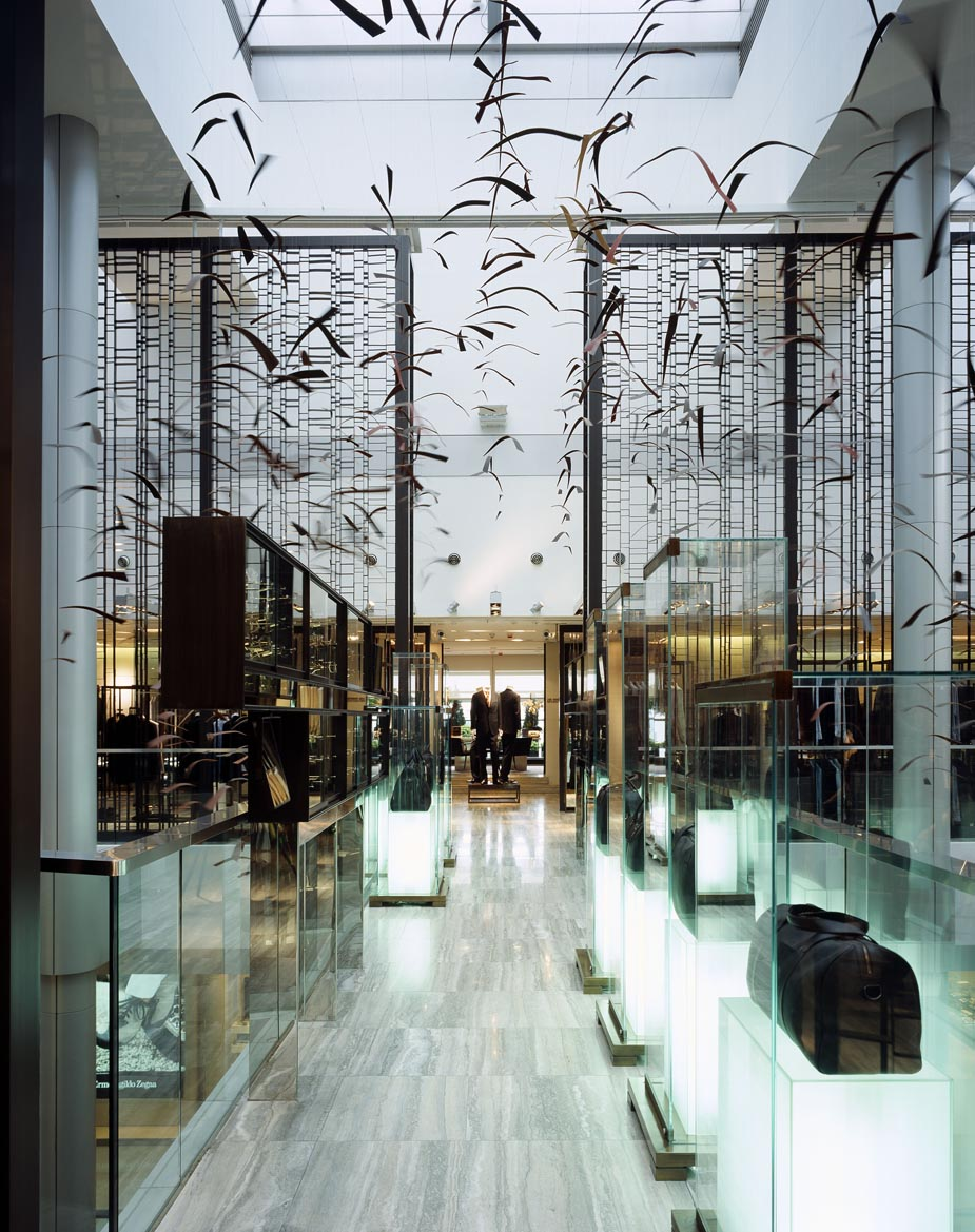 Lane Crawford ifc mall